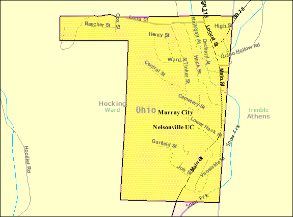 Map of Murray City, a village in Jackson County, Ohio, United States, with its boundaries at the time of the 2000 census.